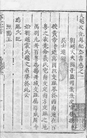 A page of "Dai Viet Su Ky Toan Thu", an official history of ancient Vietnam.